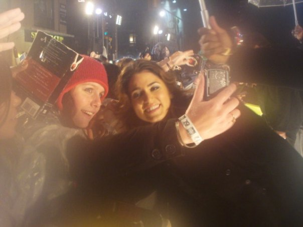 Actress Nikki Reed posing for pics with fans during Twilight Live@Much.